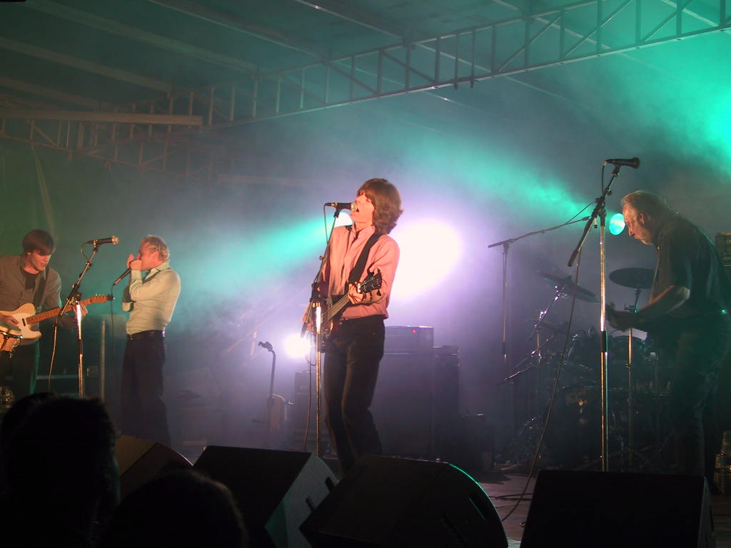 The Yardbirds, at Langueux (France).